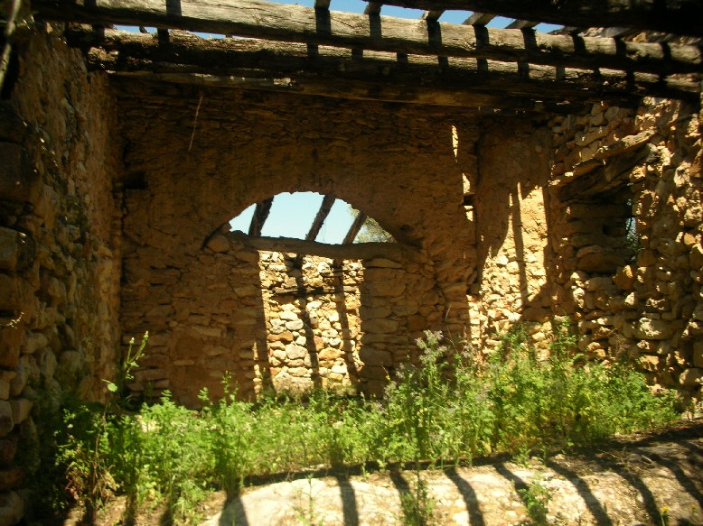 Interior of a ruined building in Merades, ghost town located between Ulldecona and Godall